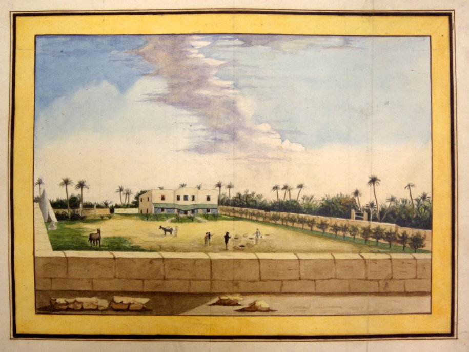 Hanmer Warrington’s private villa near Tripoli, completed 1820. Date of painting unknown, probably 1860s.